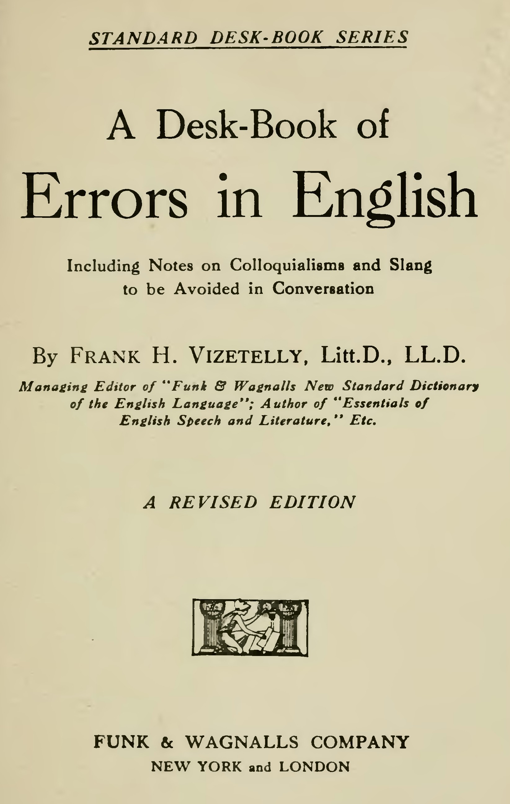 Scan of A Desk-Book of Errors in English by Frank Horace Vizetelly, 1906